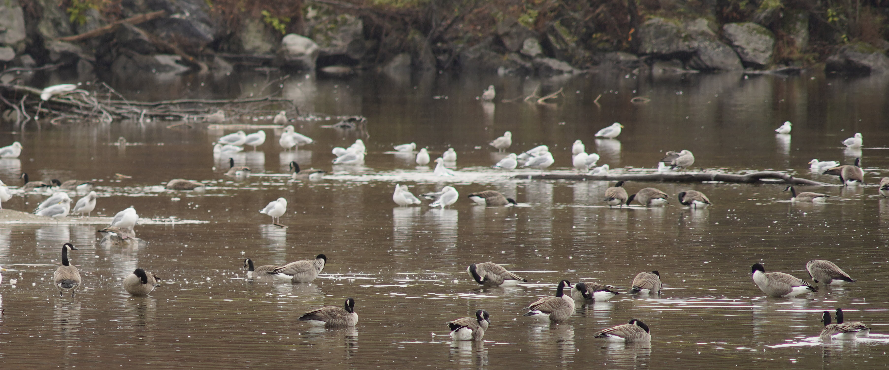 Canada Geese, Davignon Lake, Cowansville, Quebec, Canada